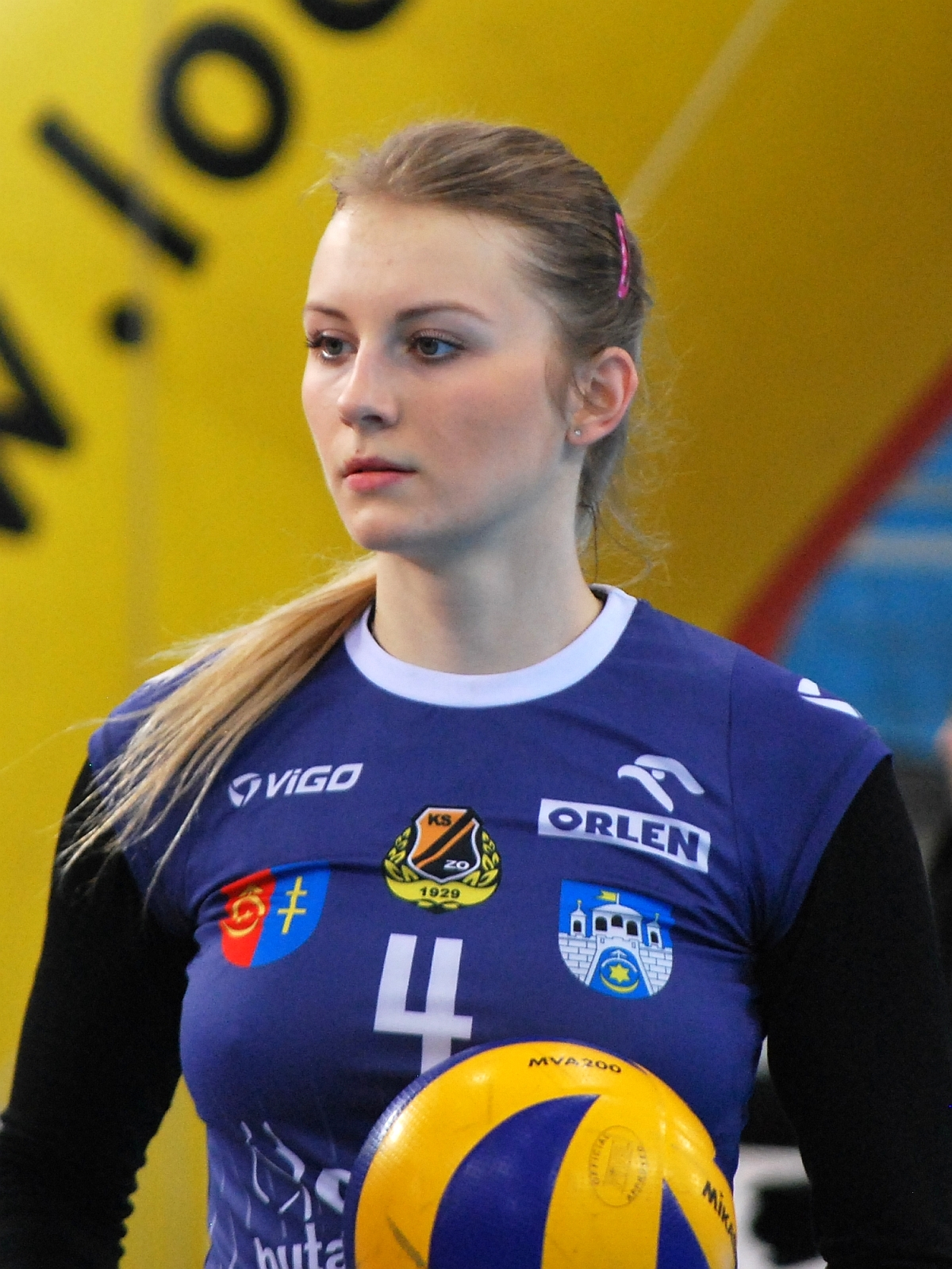 Klaudia Grzelak, volleyball player from Poland